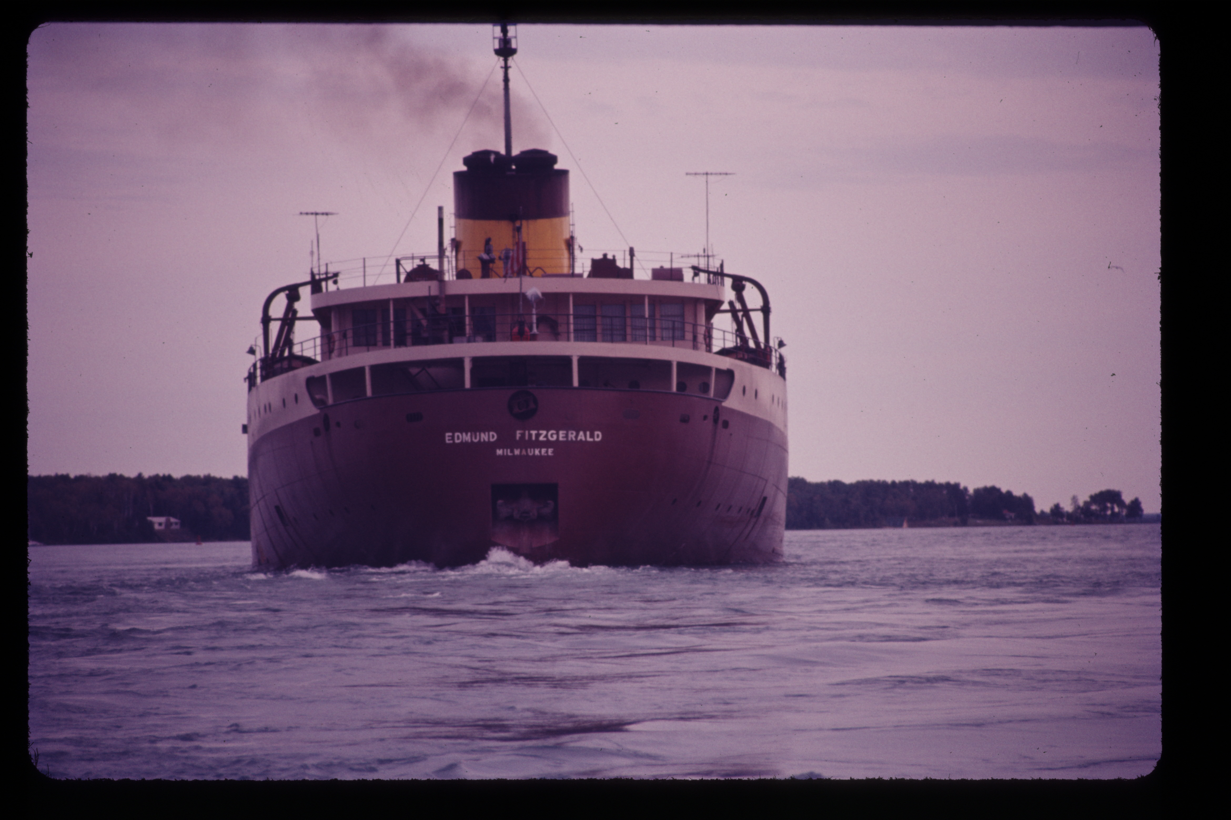 Edmund Fitzgerald, 1971